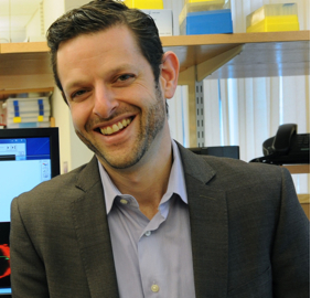 Profile of Karp